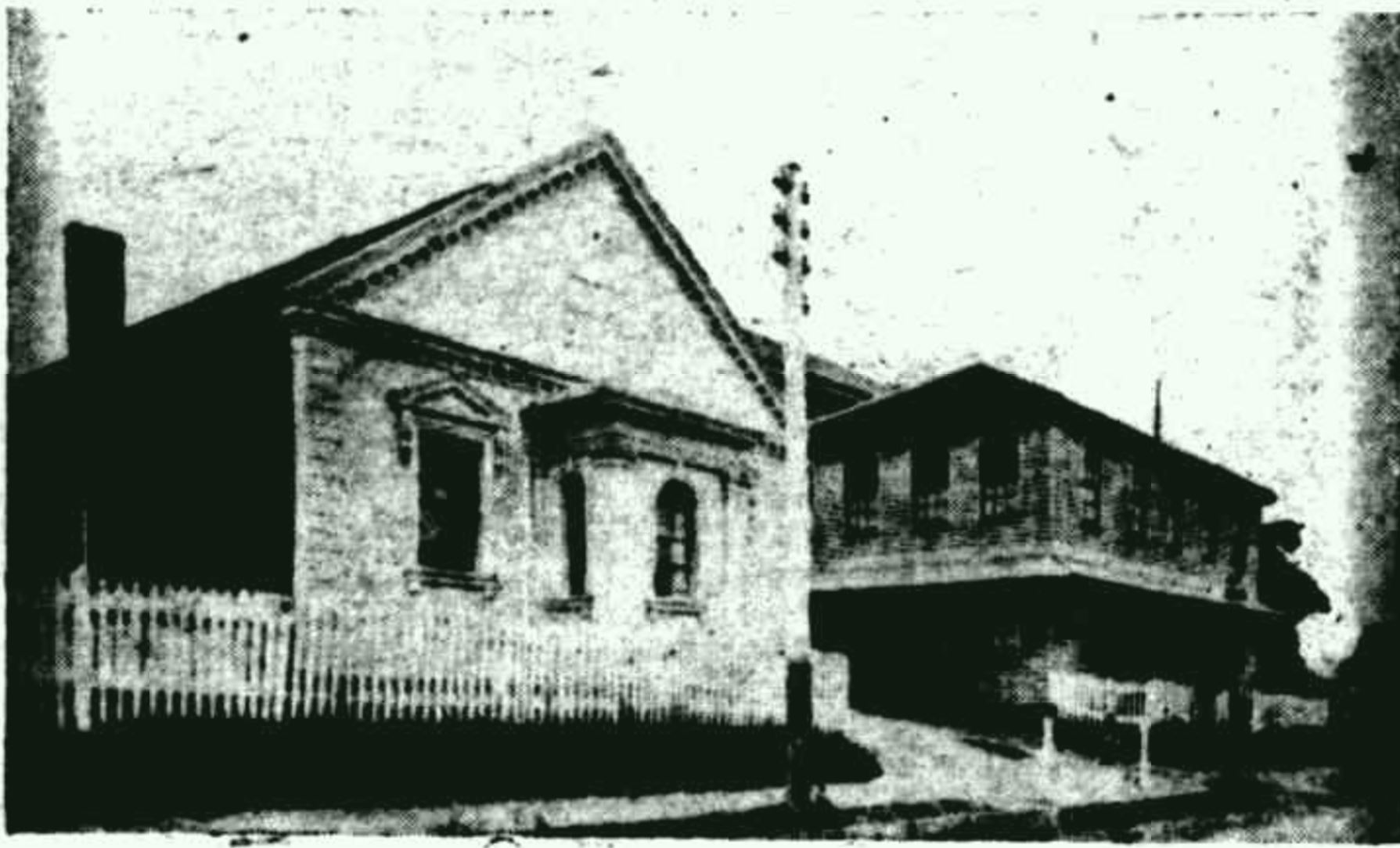 Dr Lang's United Church, corner of William Street and Stephen's Lane